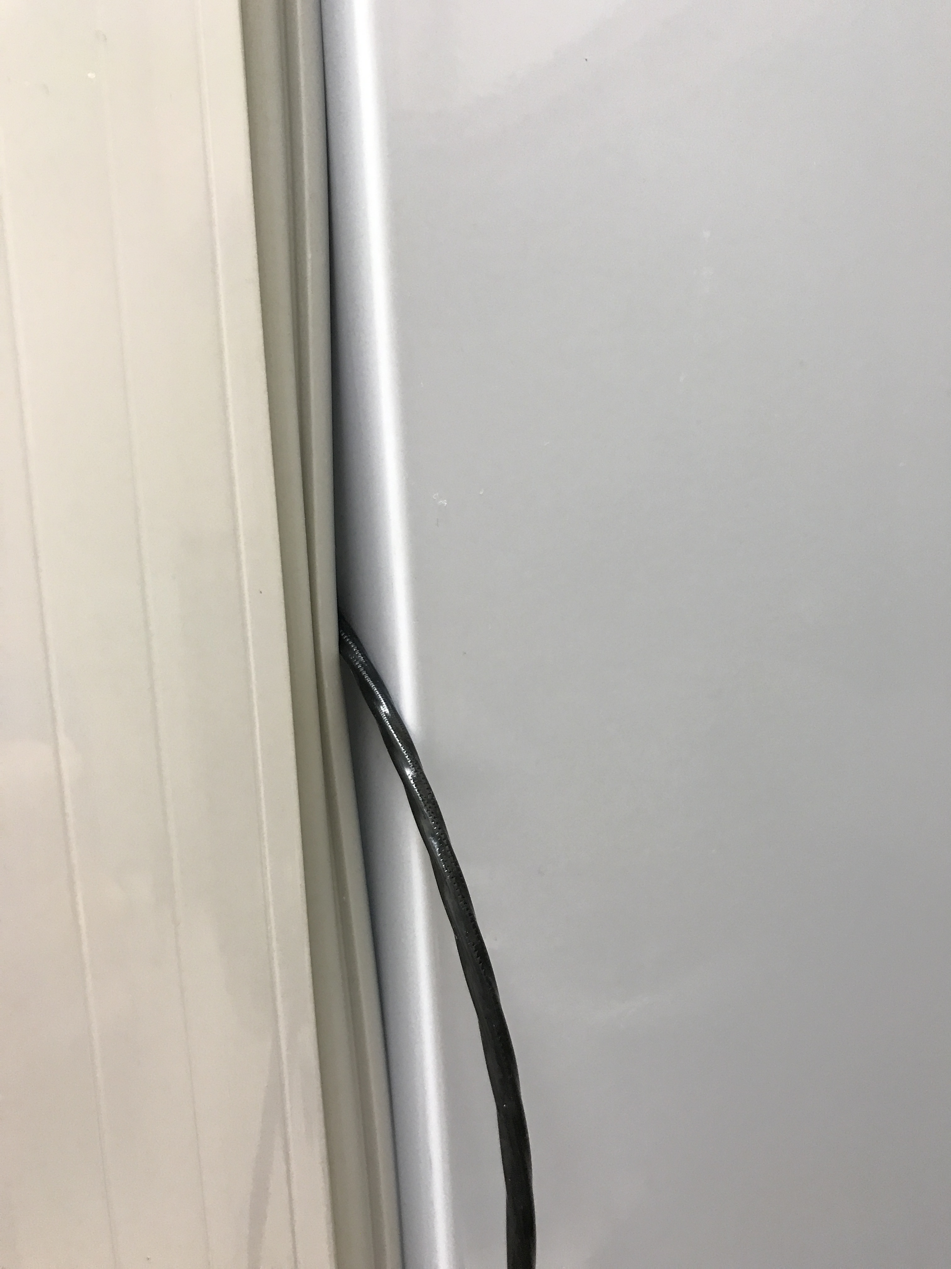 Data logger cable being shown running through the door gasket, causing a gap which allows air to enter and escape.